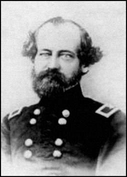 1864 engraving of Gen. Lewis G. Arnold